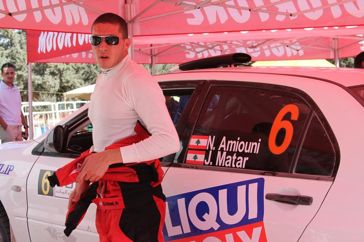 Nicolas Amiouni at the service park during the 3rd local Jordanian rally